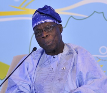 Olusegun Obasanjo, former Nigeria President, speaking at the African Development Bank Group annual meetings in Kigali, during APP panel meeting.